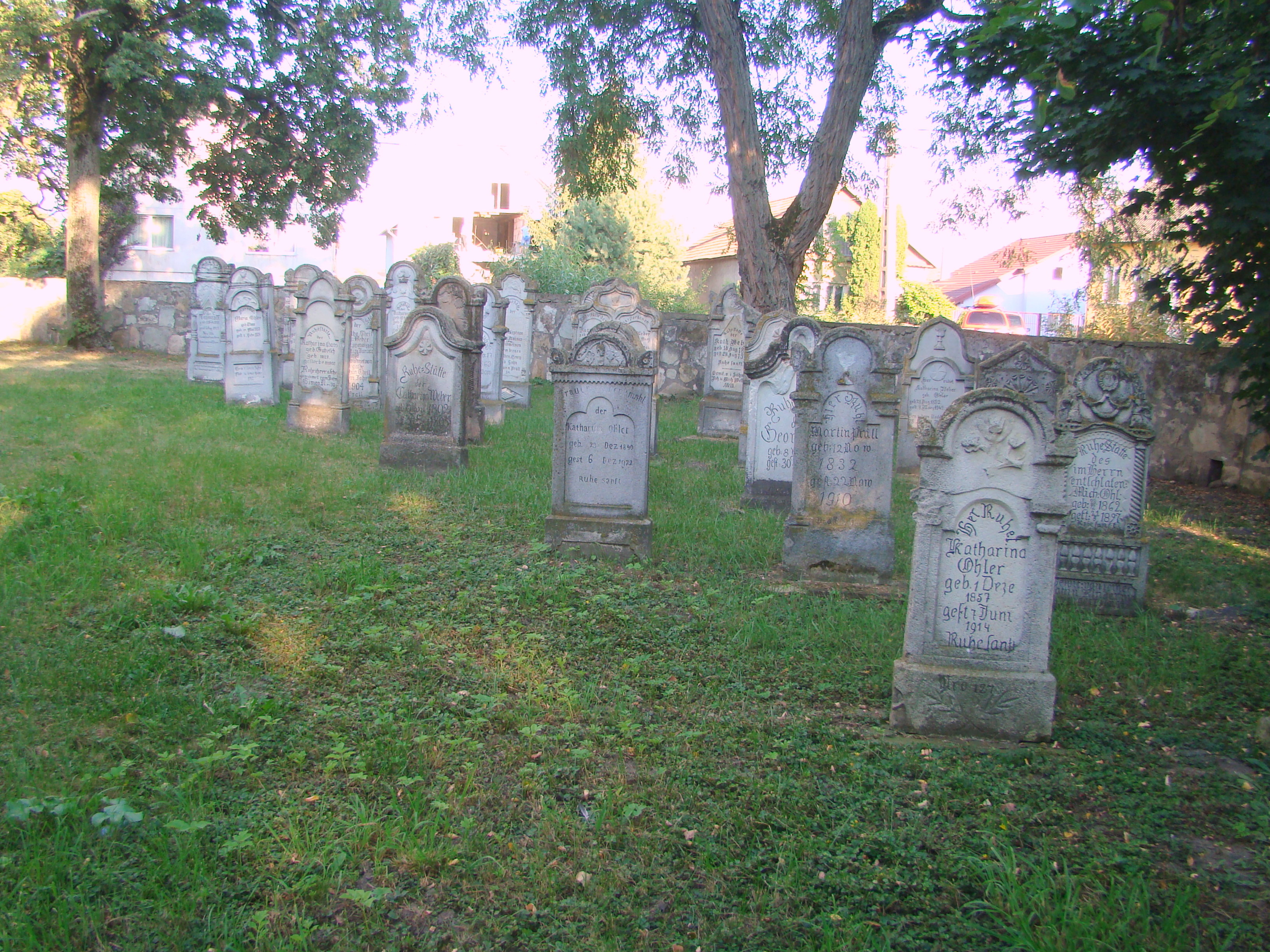 Church of the Annunciation in Cepari, Bistrița-Năsăud county, Romania